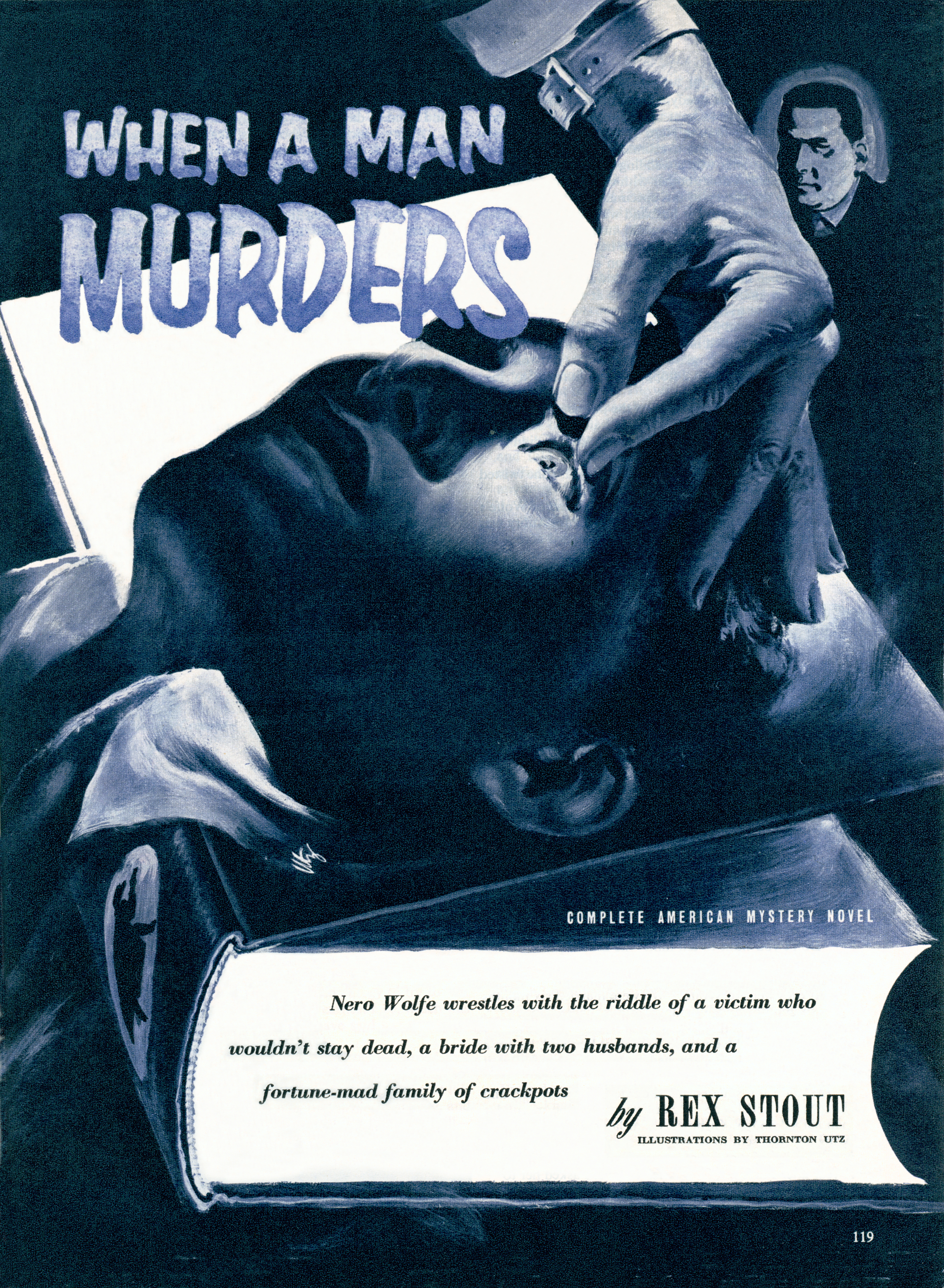 Lead illustration from The American Magazine printing of "When a Man Murders", a Nero Wolfe short story by Rex Stout